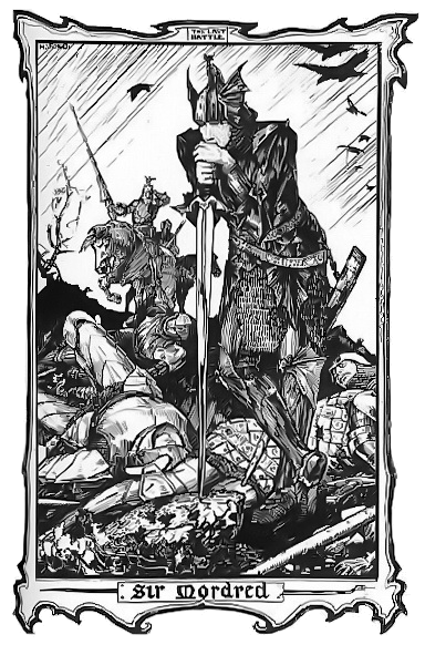 "Sir Mordred — The Last Battle", from The Book of Romance, edited by Andrew Lang. New York: Longmans, Green and Co., 1902.